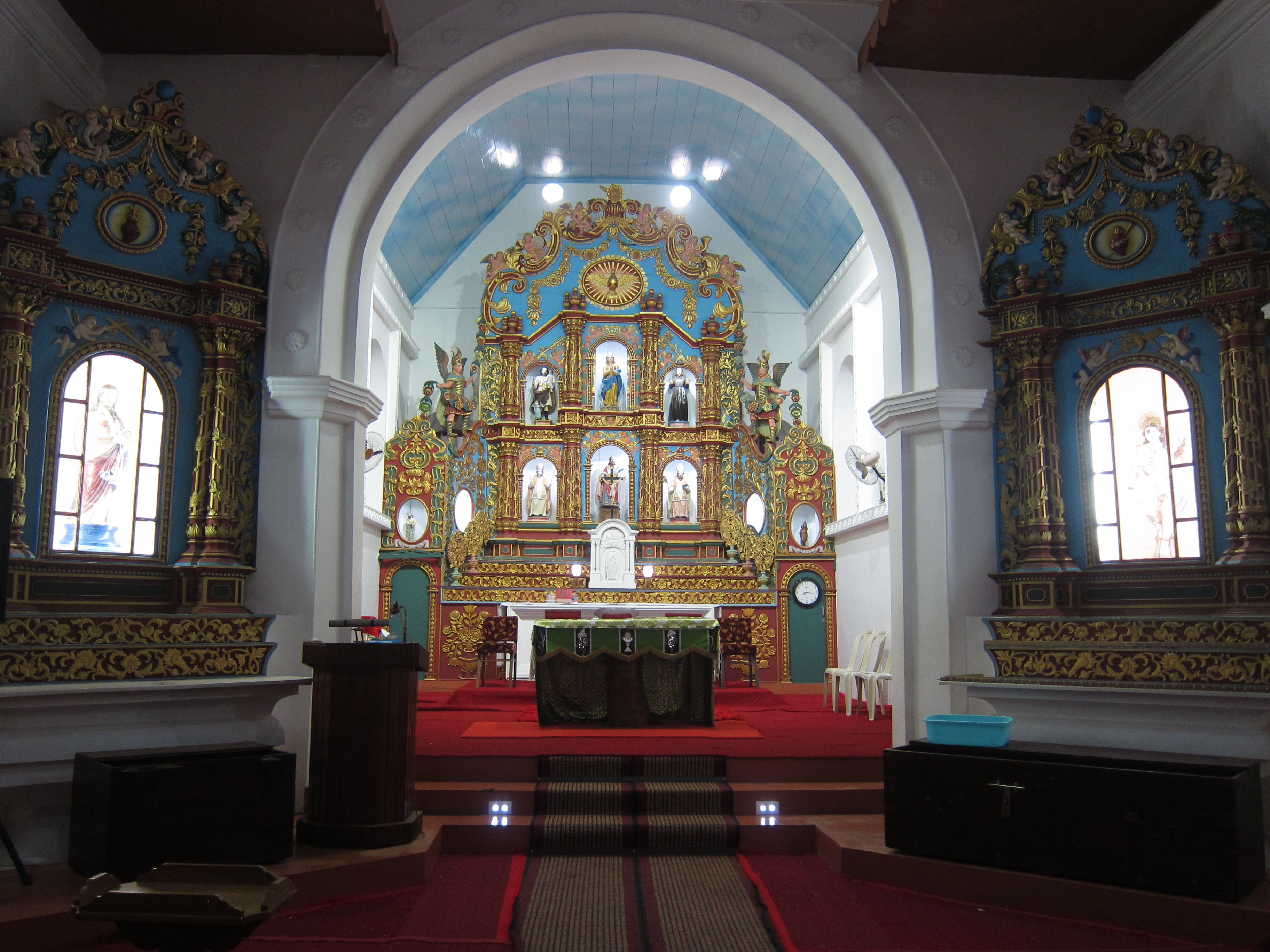 Arthunkal Church - അർത്തുങ്കൽ പള്ളി, അർത്തുങ്കൽ, ആലപ്പുഴ ജില്ല സെന്റ് ആൻഡ്രൂസ് ബസിലിക്ക പഴയ പള്ളിയുടെ ഉൾഭാഗം